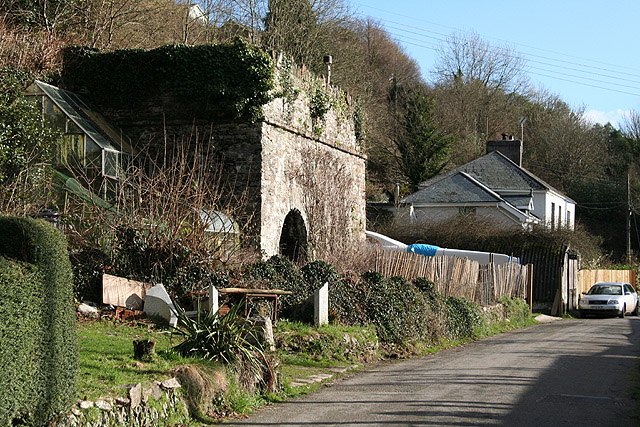 Calstock: second limekiln near the old incline On Lower Kelly